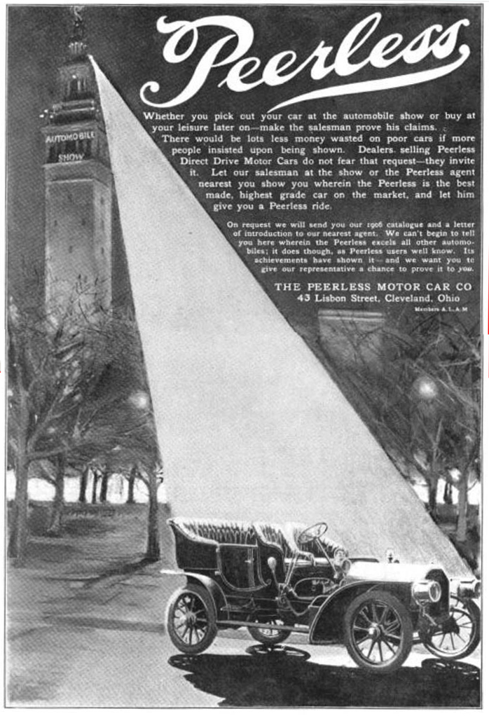 The Peerless Motor Car Company - Cleveland, Ohio - 1905